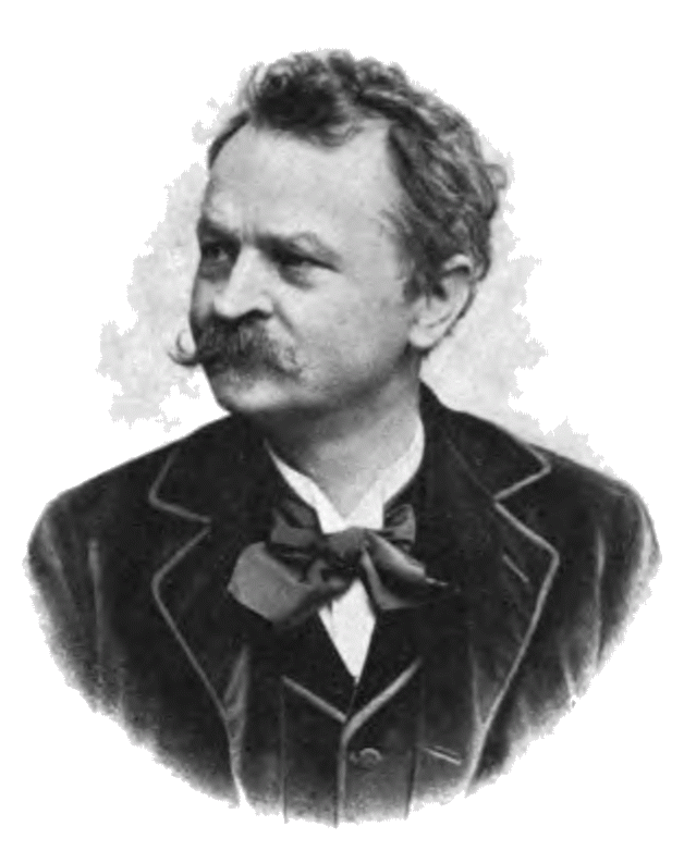 Josef Székely (1838–1901), Austrian-Hungarian chemist and photographer